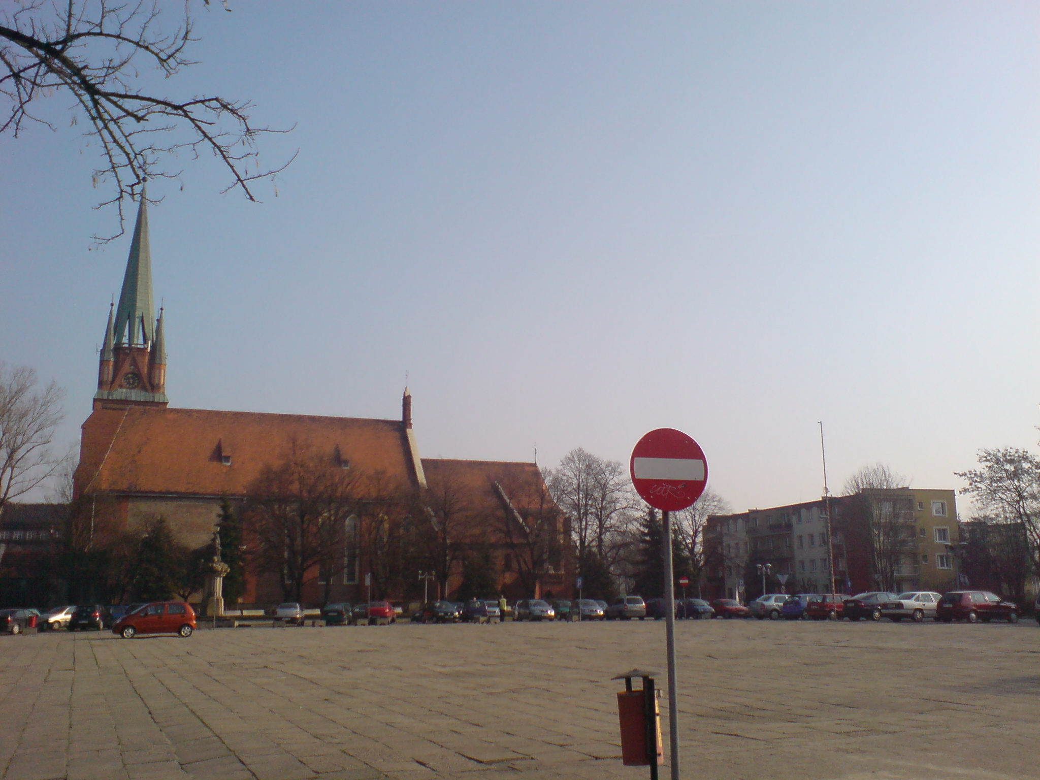 Długosza square in Racibórz